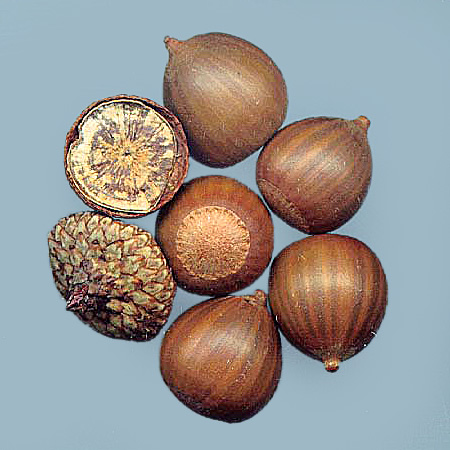 Quercus palustris acorn